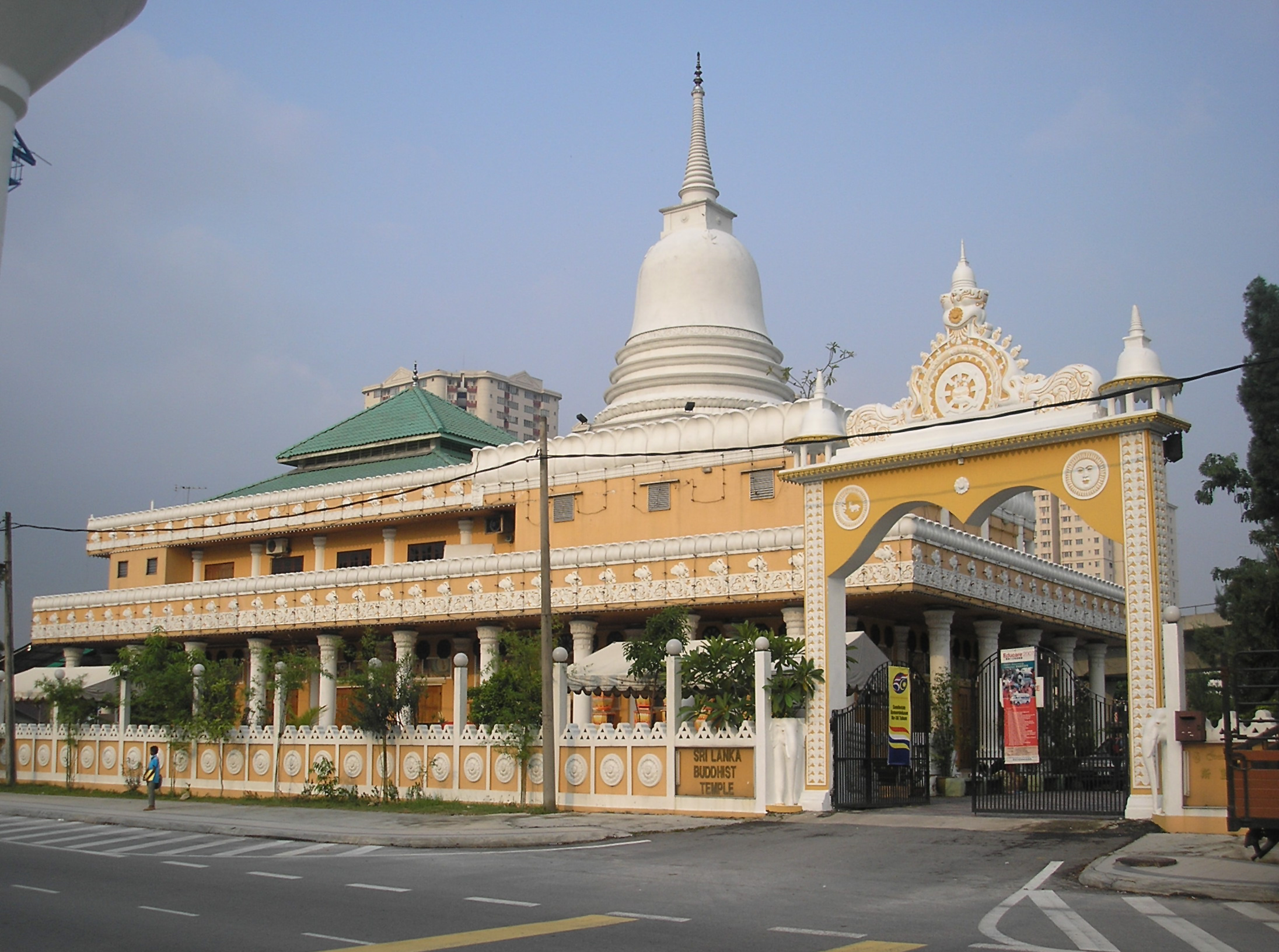 The Sri Lanka Buddhist Temple as seen from Lorong Timur (East Alley) in Sentul, Kuala Lumpur, Malaysia.